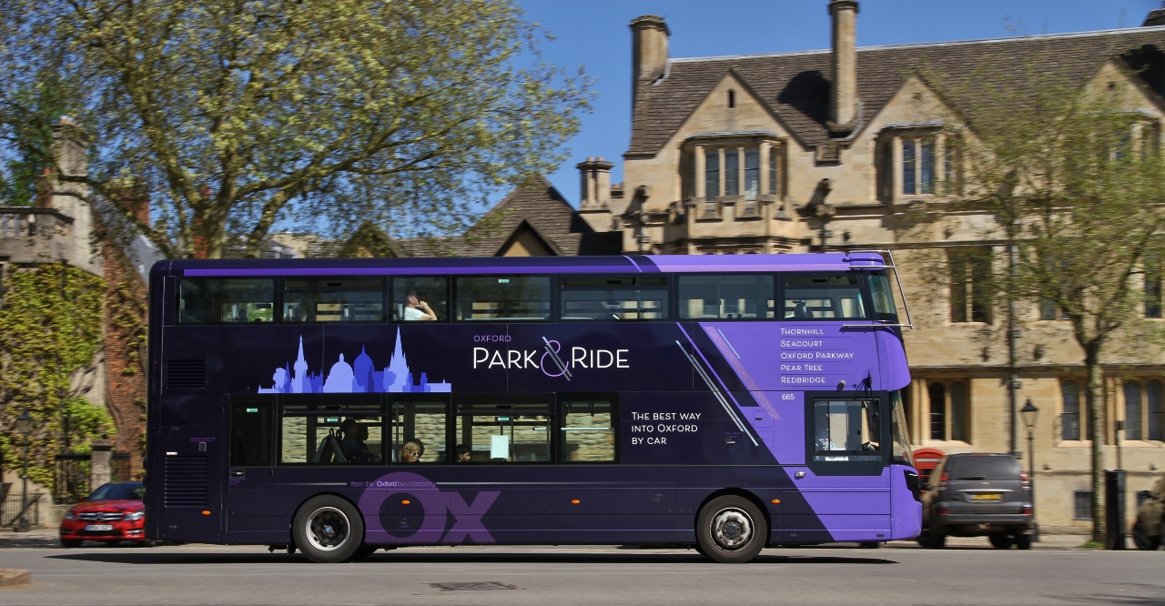 An Oxford Bus Company bus passing St John's College in St Giles', Oxford. The bus is a Wright StreetDeck, registration mark SK66 HTY, fleet number 665, in Park & Ride livery.